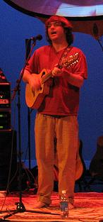 Keller Williams & The Keels - 02.03.2006 Ridgefield Playhouse, Ridgefiled, CT